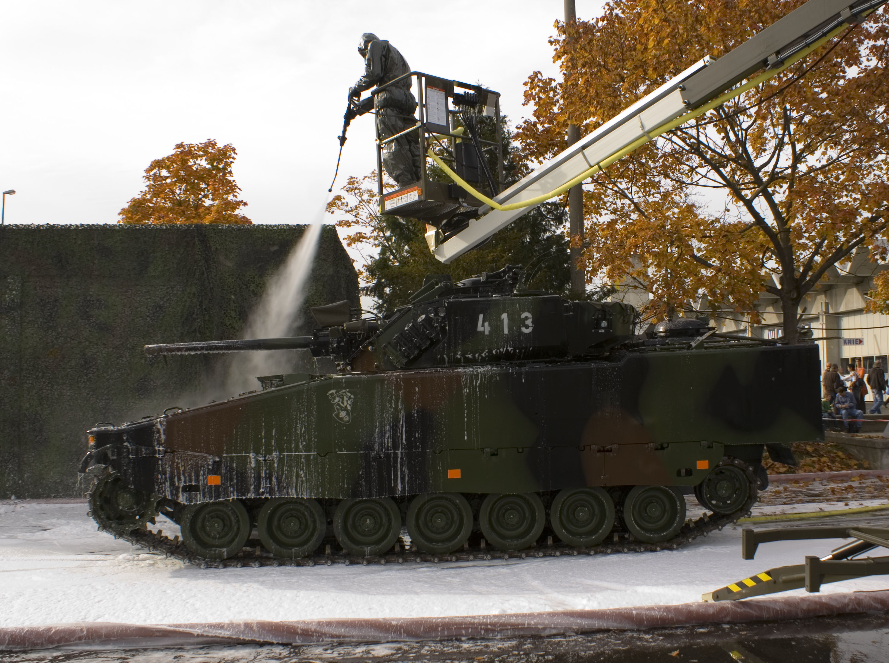 Swiss Army. Demonstration decontamination of a APC Spz 2000 (Hägglunds Combat Vehicle 90).